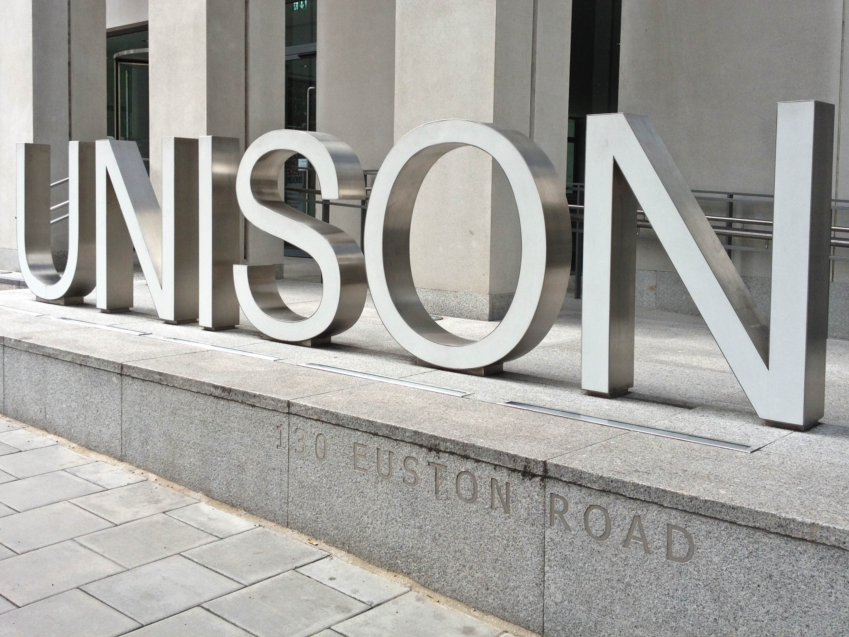 UNISON trade union head office, 130 Euston Road, London.